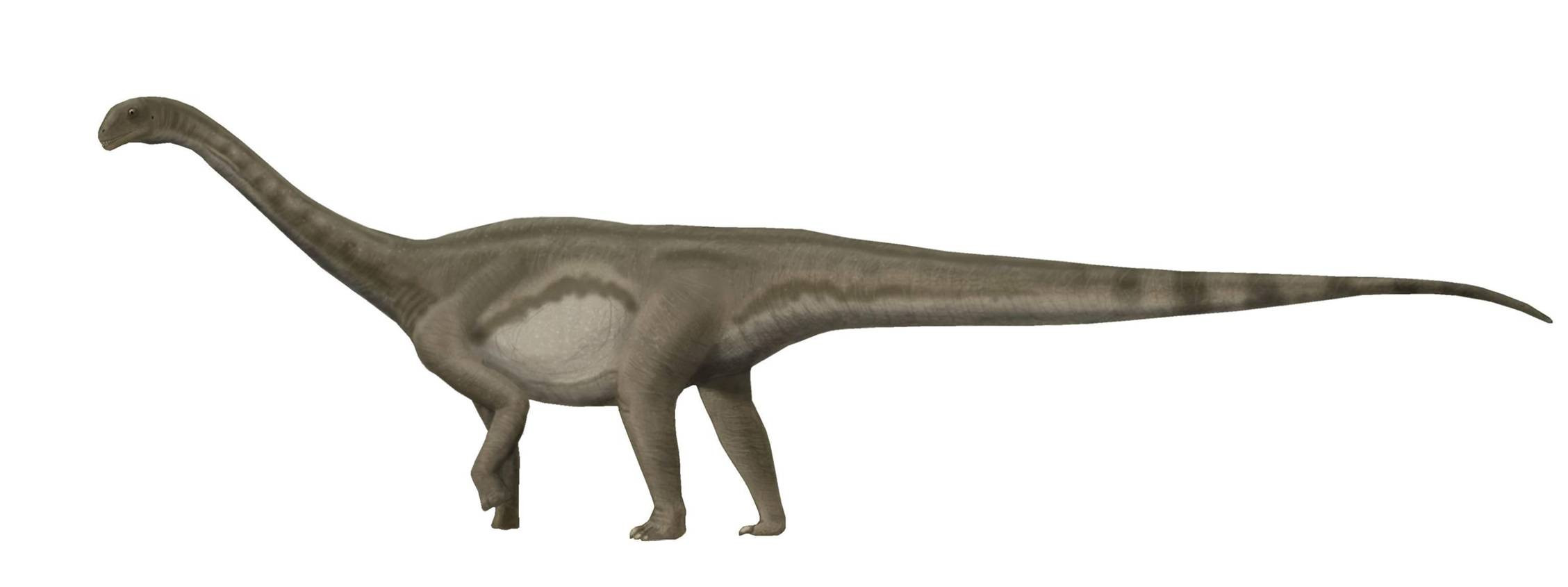 Life restoration of Patagosaurus fariasi.